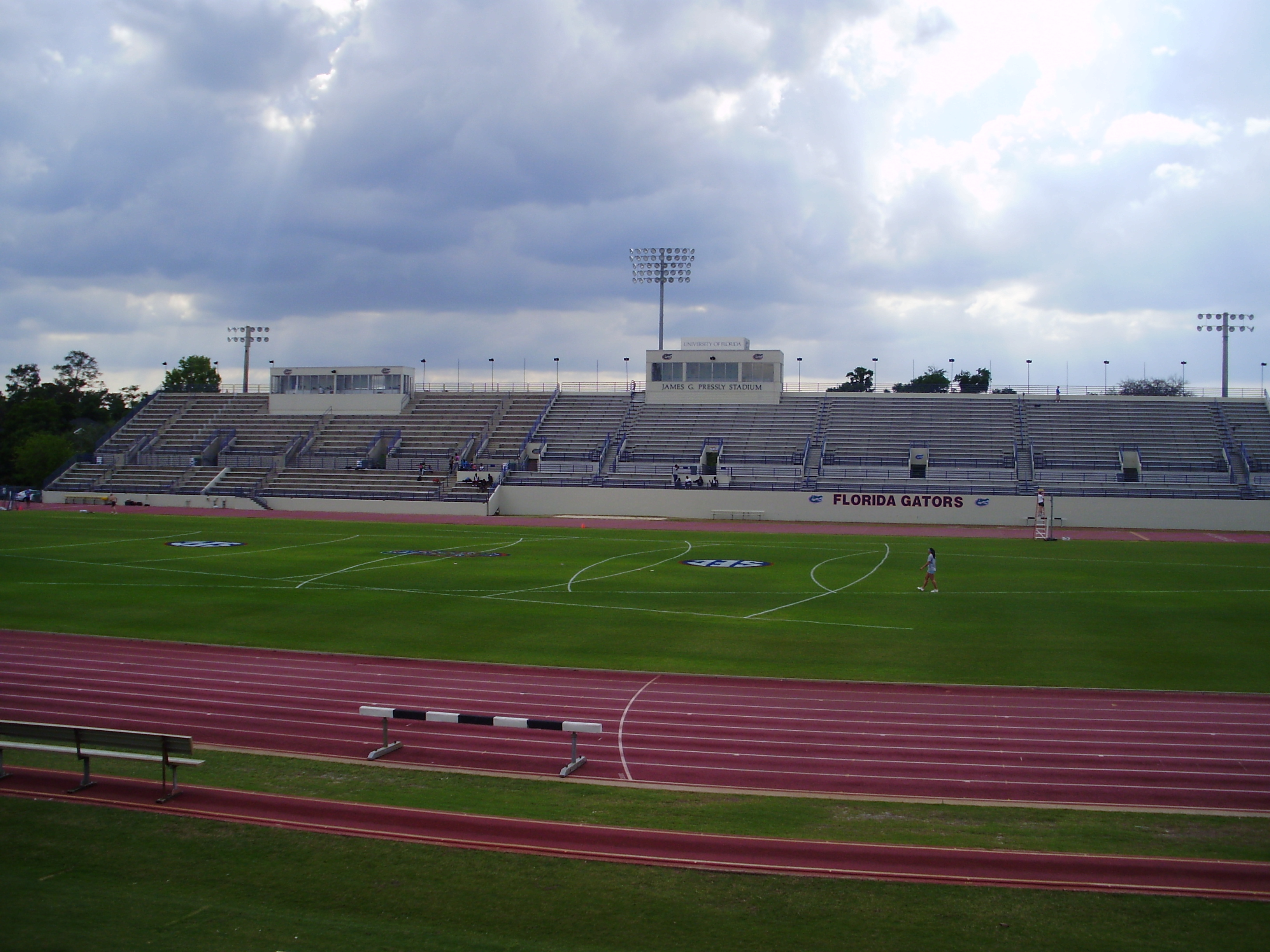 James G. Pressly Stadium at the University of Florida